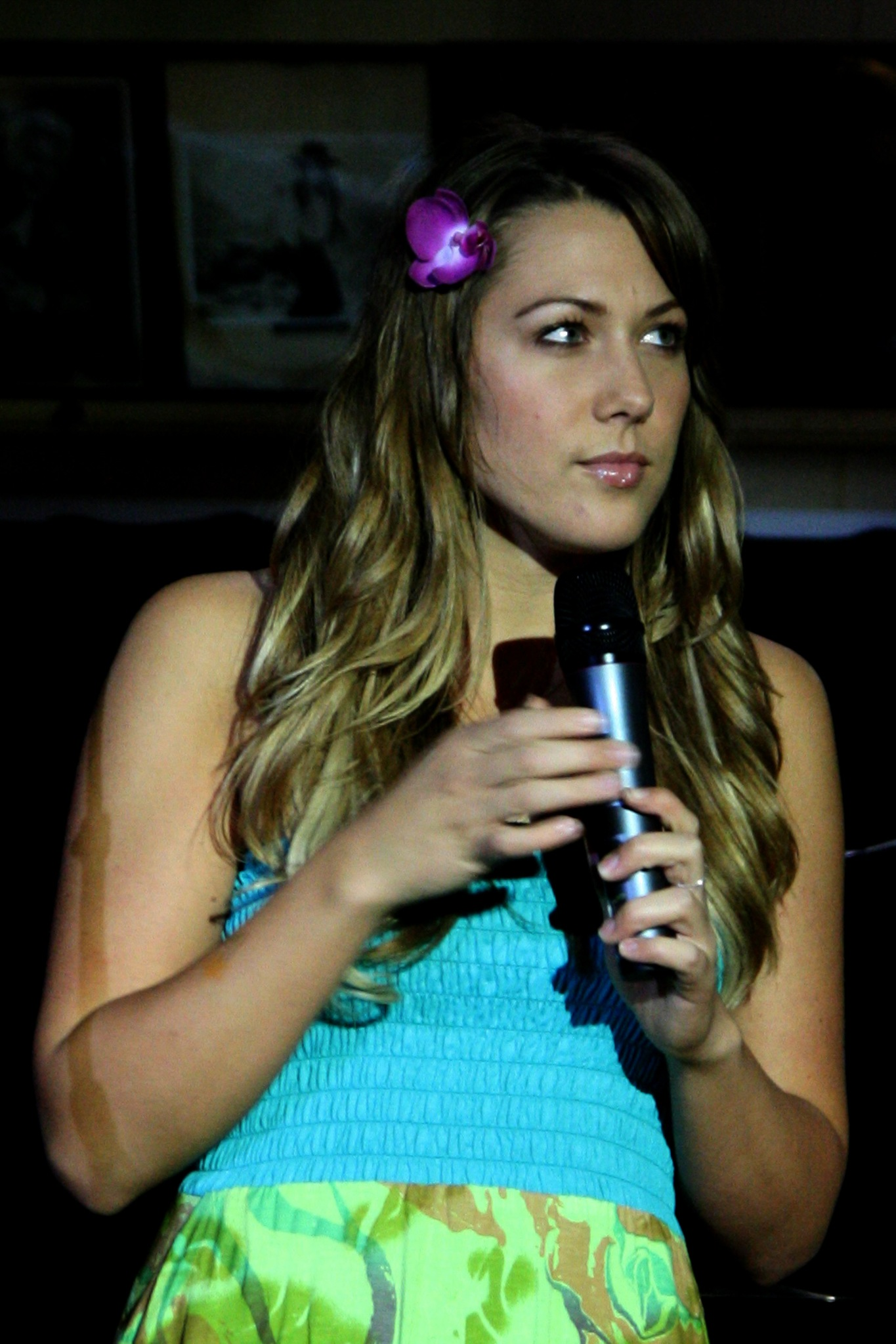 Picture of singer Colbie Caillat, found on Flickr at this URL. License is confirmed to be the Creative Commons Attribution Generic 2.0. Thanks to Mil8 for the original image.